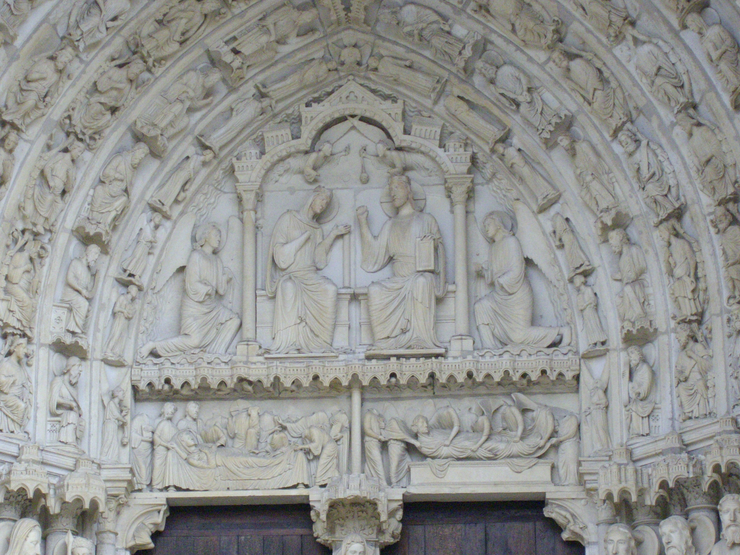 North porch of the Chartres Cathedral in Chartres (France)